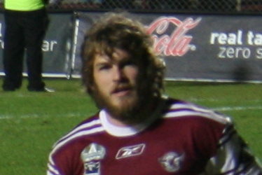 pic of manly player